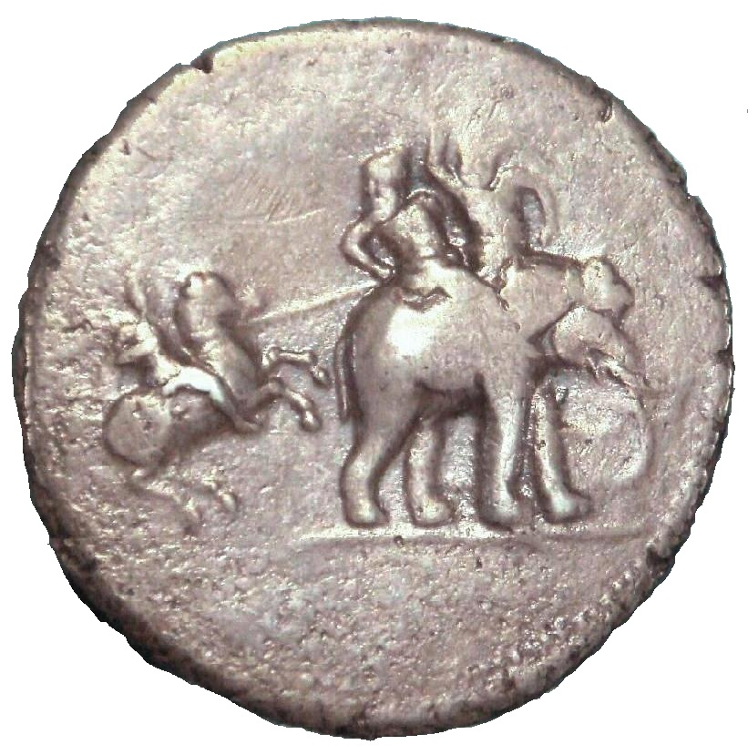 Cropped from File:Alexander victory coin Babylon silver c 322 BCE.jpg by PHGCOM "Victory coin" of Alexander the Great, minted in Babylon c. 322 BC, following his campaigns in the Indian subcontinent. Reverse: Alexander attacking king Porus on his elephant. Silver. British Museum. See Keyne Cheshire, Alexander the Great (Cambridge University Press, 2009), p.139: "perhaps issued as early as 324 BCE" and depicts "Alexander charges Porus, who hurls a javelin from atop his elephant"